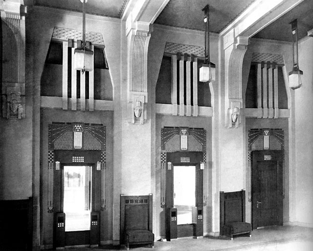 Moscow Merchant club, now Lenkom Theater, interiors by Illarion Ivanov-Schitzб 1907-1908